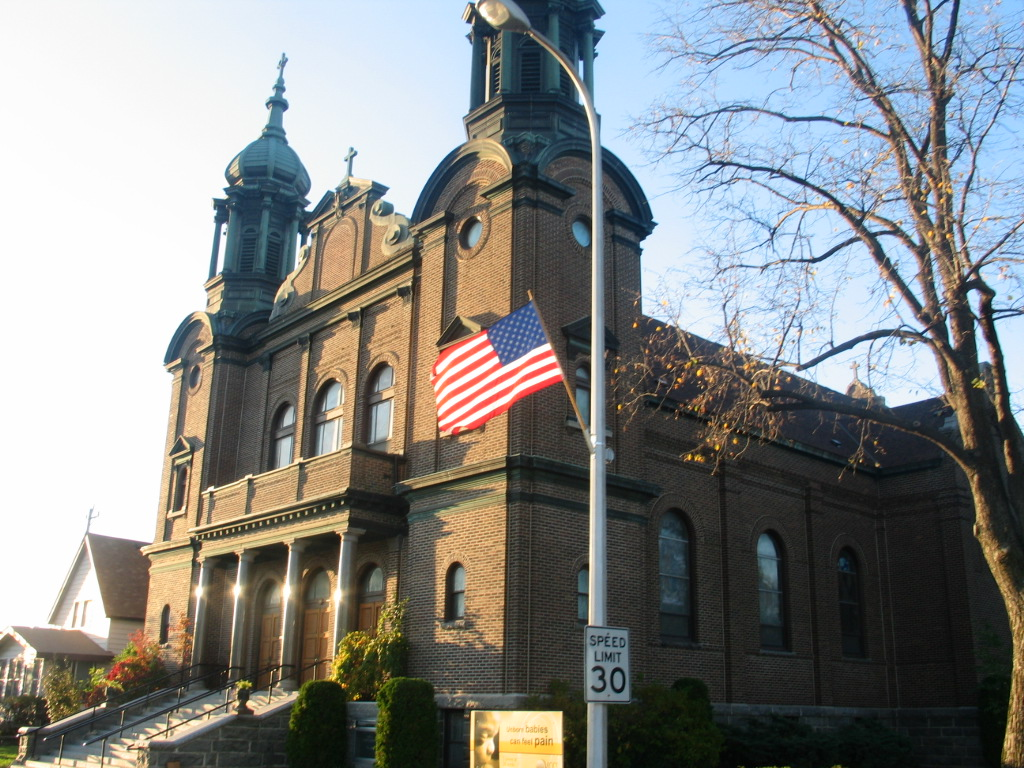 Our Lady of Lourdes Church, Little Falls, Minnesota